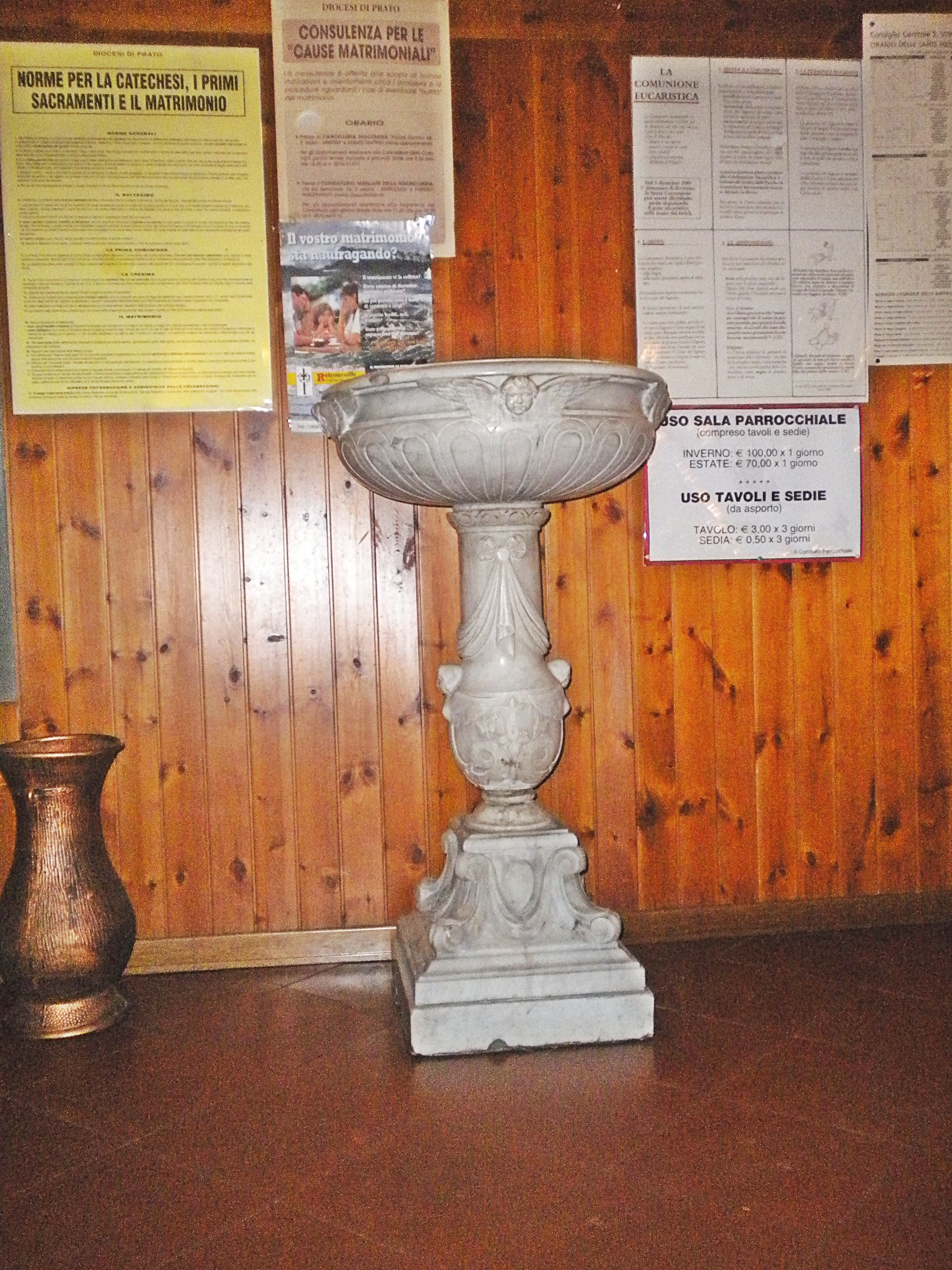 stoup